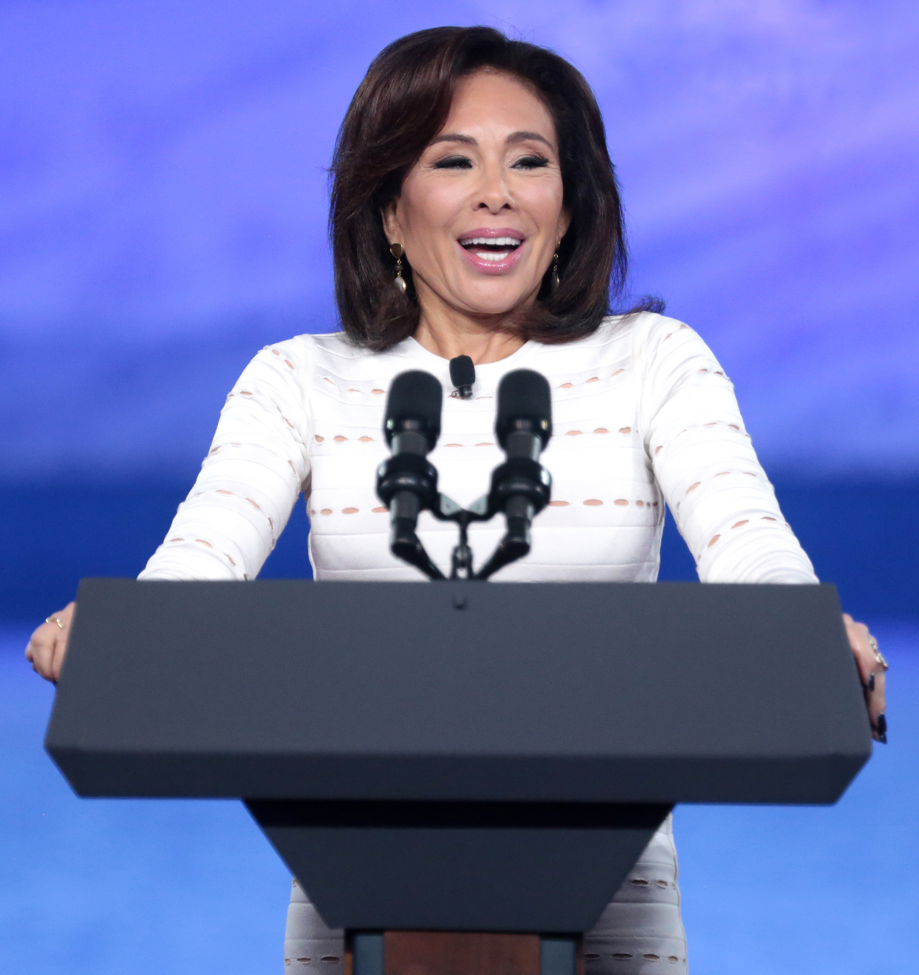 Jeanine Pirro speaking at the 2017 CPAC in National Harbor, Maryland.